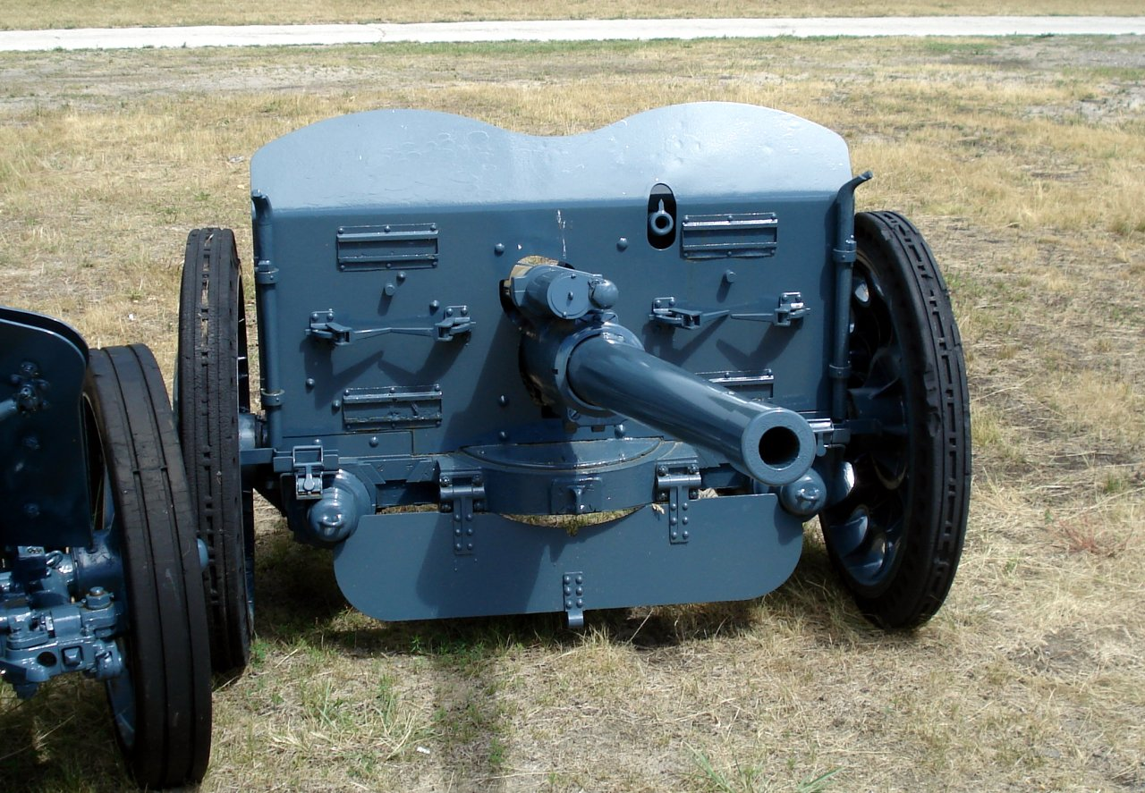 French 47 mm APX anti-tank at Base Borden Military Museum.